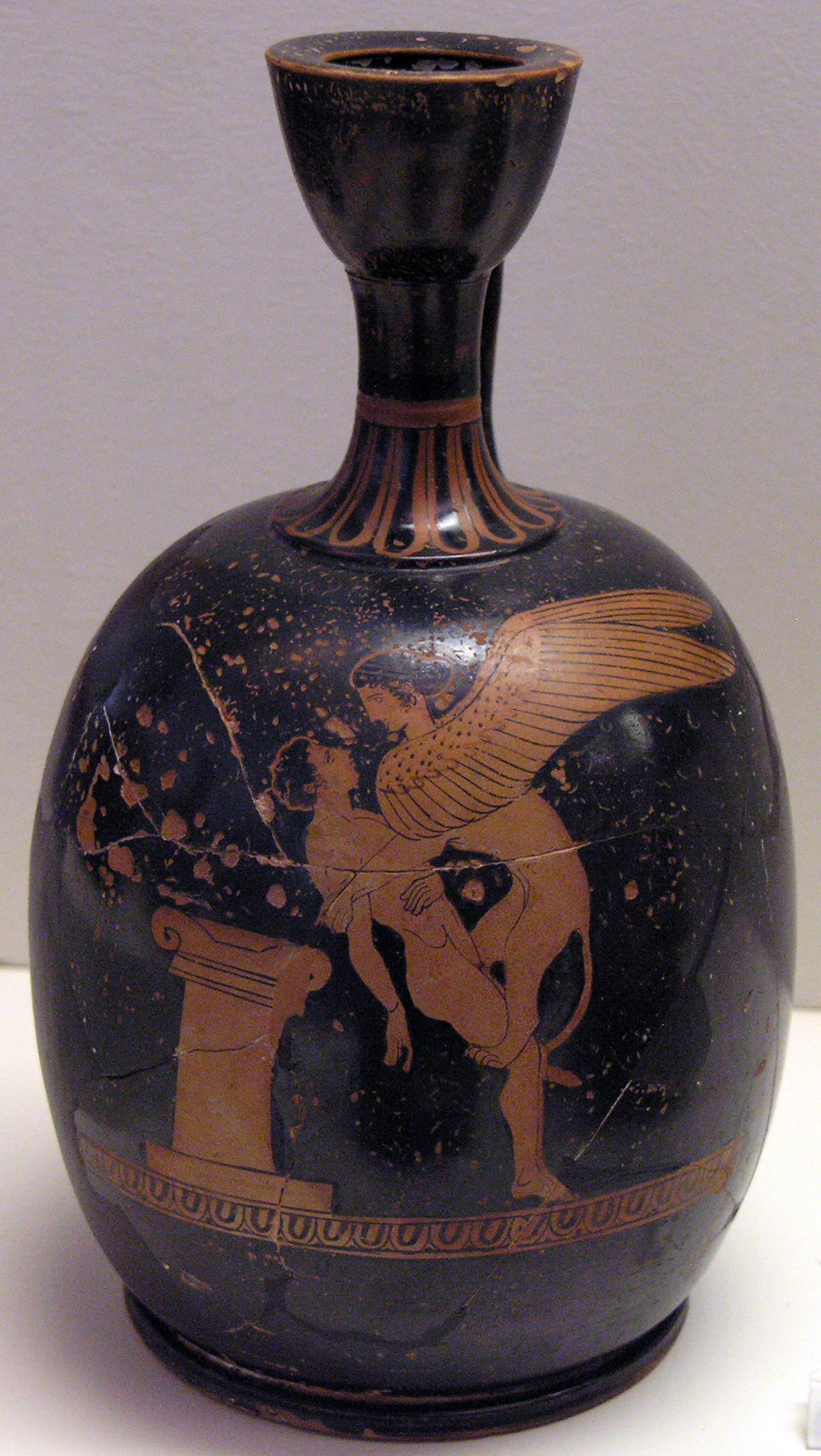 Squat lekythos. Sphinx abducting a youth. From Athens. By Polion. About 420 BC.